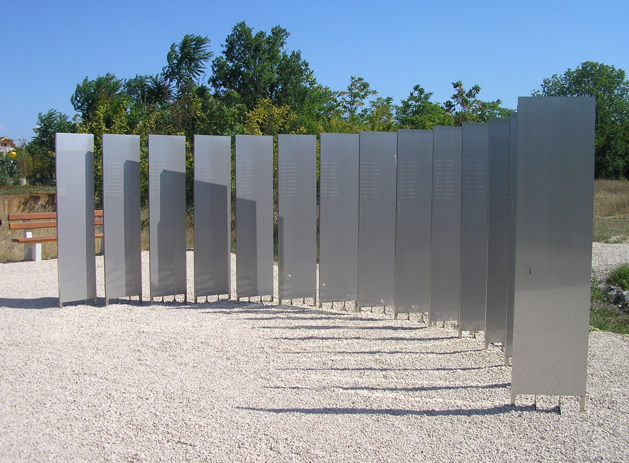 Monument to archaeologists amateurs meritorious for findings in Ljubuški municipality